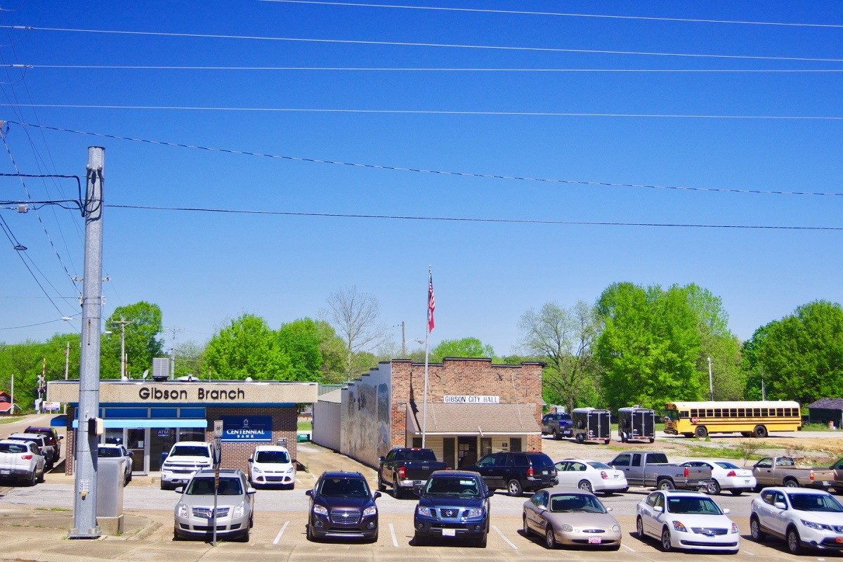 View of Gibson, Tennessee, United States, with City Hall at center.